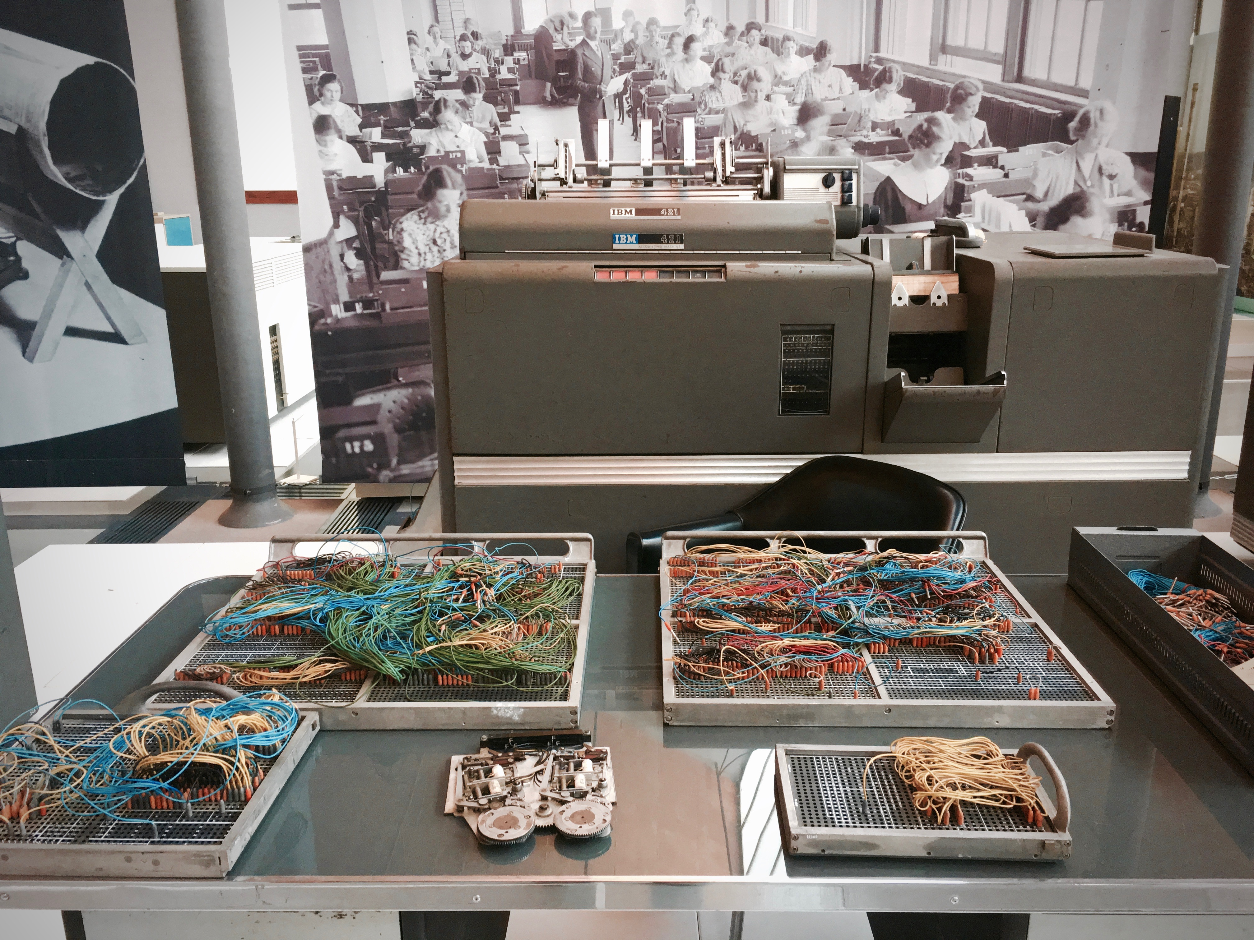 IBM 421 with plug boards